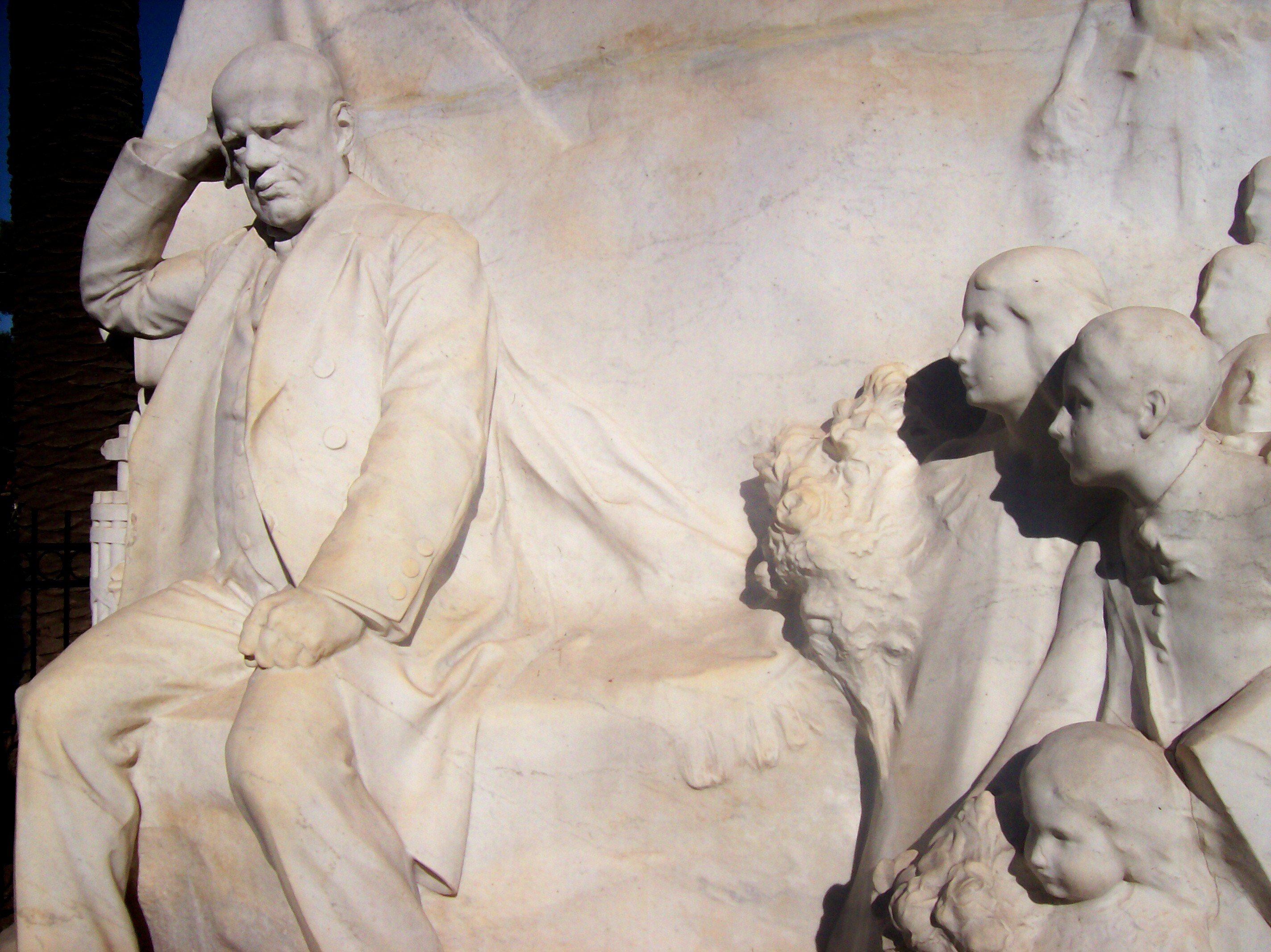 High Relief "Ofrenda Floral a Sarmiento"